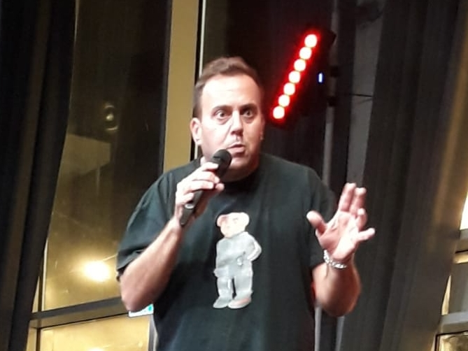 Nicky Goldstein - stand-up 24.9.19